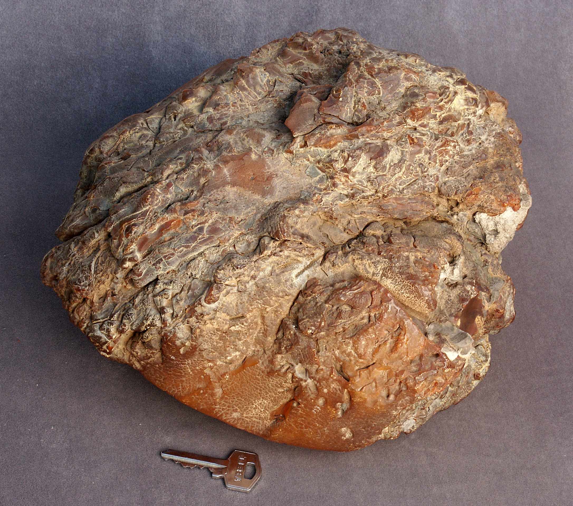 Unique sample of amber from Palmniken deposit in the village of Yantarny. Weight 4 kg 280 g. Kaliningrad Amber Museum